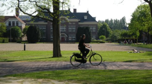 University College Utrecht (UCU) Main Campus